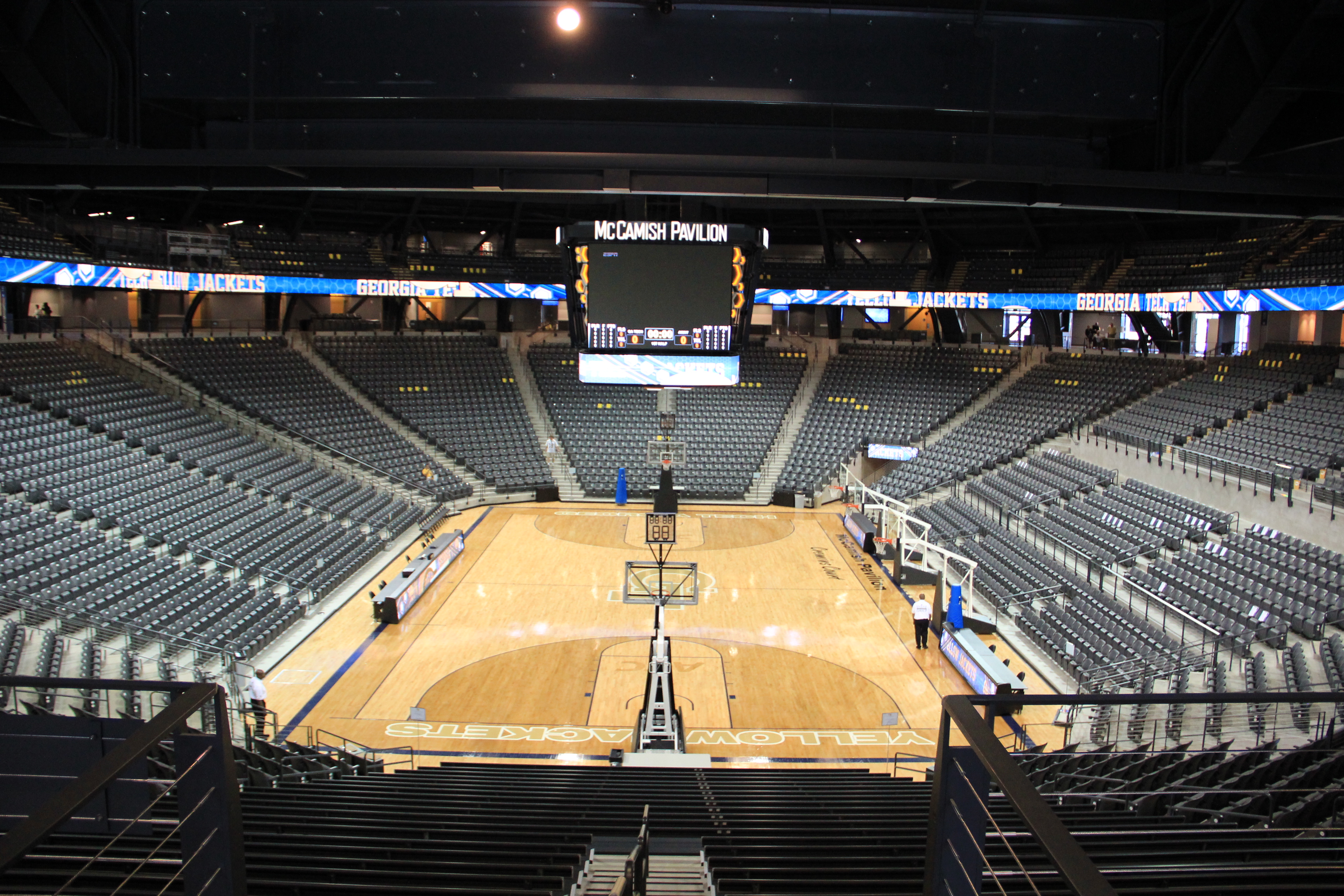 Hank McCamish Pavilion interiors, 2012